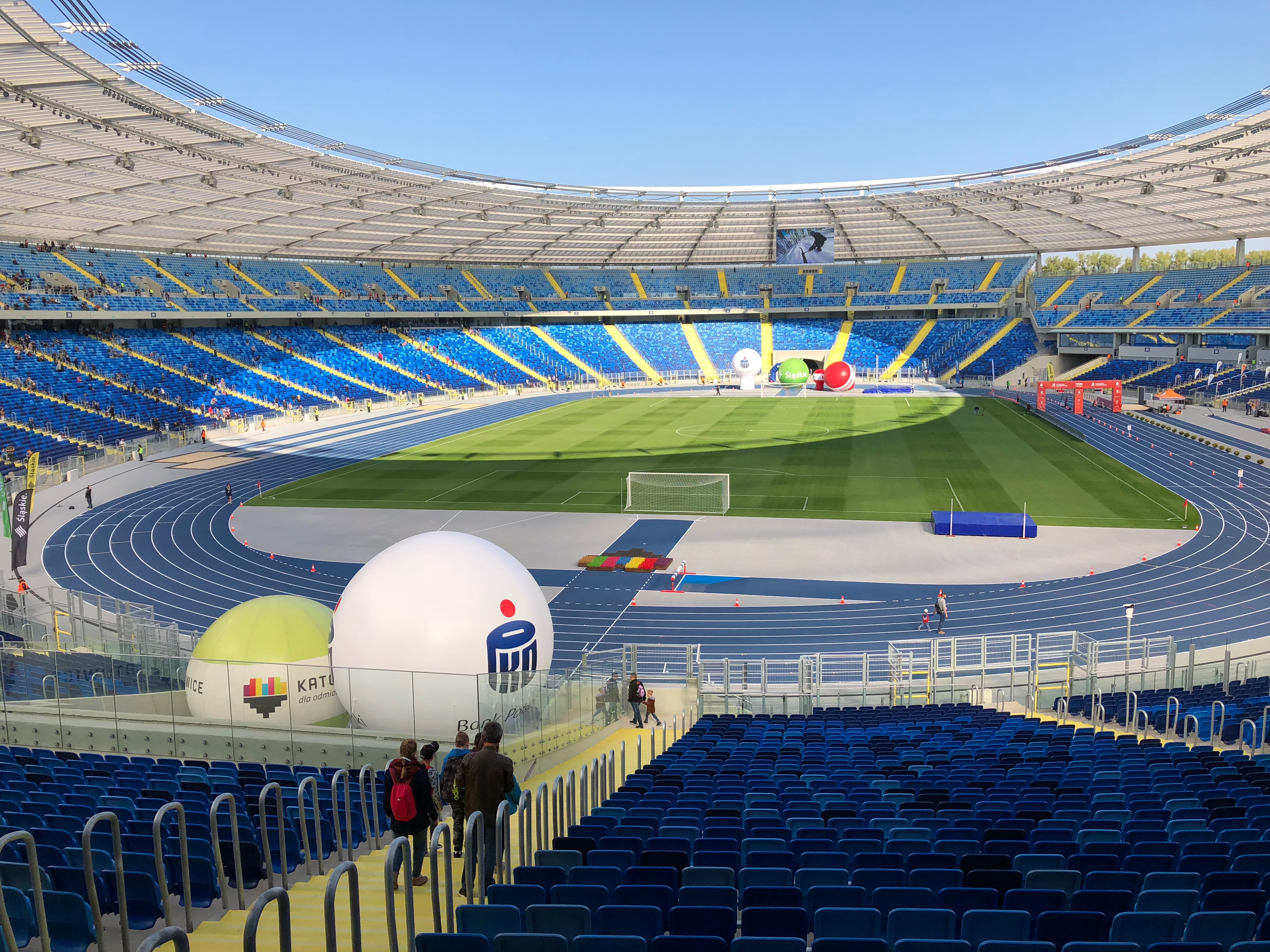 bramka